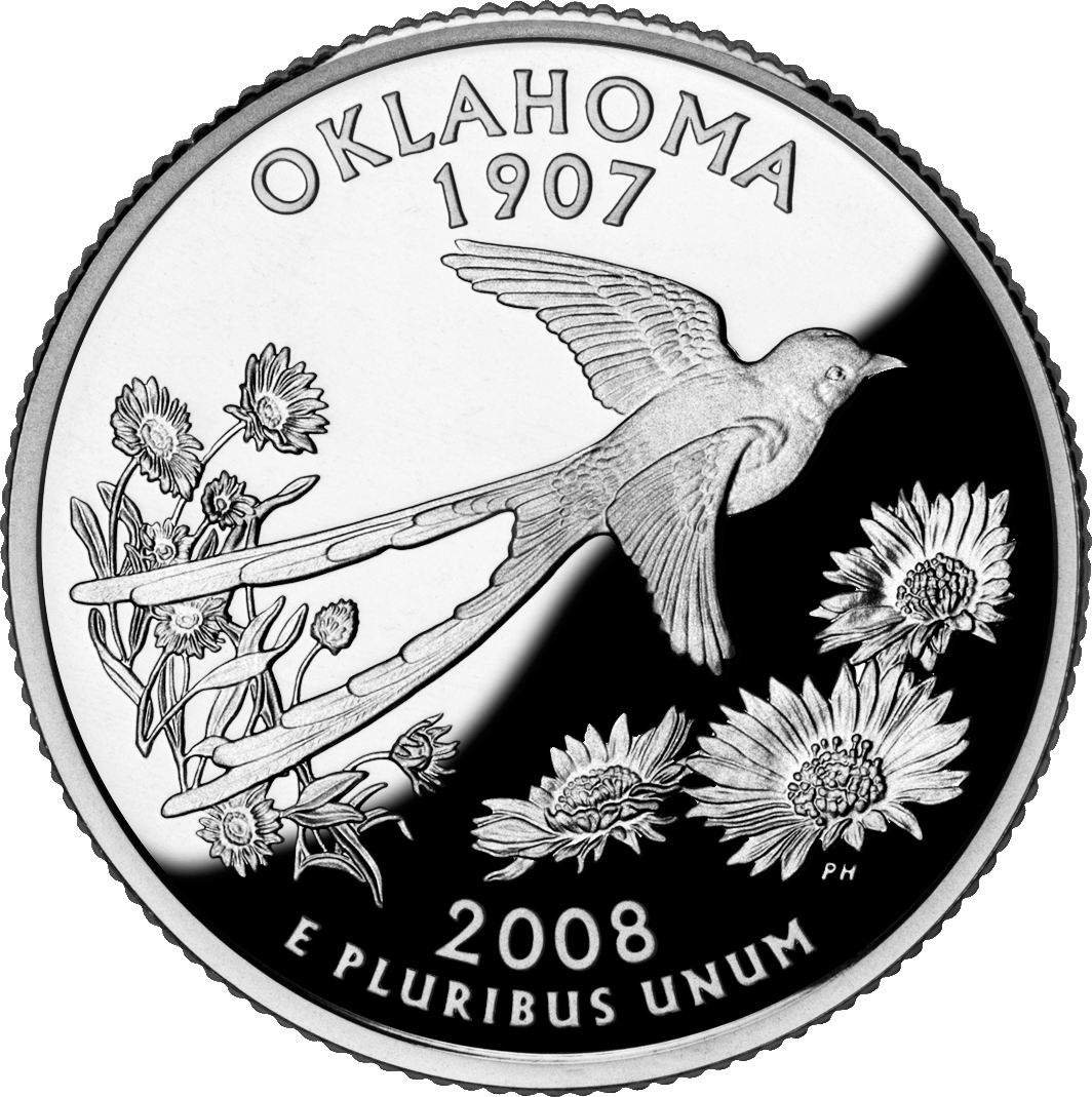 Removed background, cropped, and converted to PNG with Microsoft Photo Editor. This image depicts a unit of currency issued by the United States of America. If Fraudulent use of this image is punishable under applicable counterfeiting laws. As listed by the United States Secret Service at money illustrations, the Counterfeit Detection Act of 1992, Public Law 102-550, in Section 411 of Title 31 of the Code of Federal Regulations (31 CFR 411), permits color illustrations of U.S. currency provided:1. The illustration is of a size less than three-fourths or more than one and one-half, in linear dimension, of each part of the item illustrated;2. The illustration is one-sided; and3. All negatives, plates, positives, digitized storage medium, graphic files, magnetic medium, optical storage devices, and any other thing used in the making of the illustration that contain an image of the illustration or any part thereof are destroyed and/or deleted or erased after their final use. Certain coins contain copyrights licensed to the U.S. Mint and owned by third parties or assigned to and owned by the U.S. Mint [1]. For the United States Mint circulating coin design use policy, see [2]; for the policy on the 50 State Quarters, see [3]. Also: COM:ART #Photograph of an old coin found on the Internet